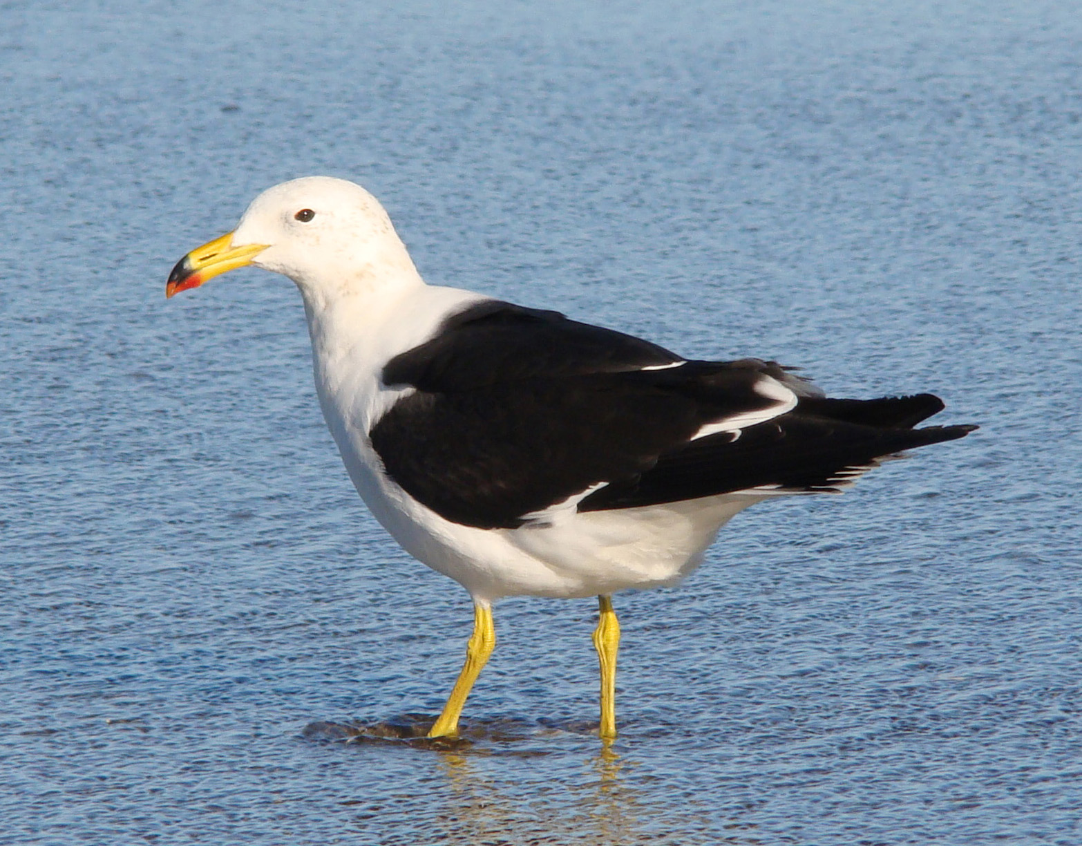 Olrog's Gull (Larus atlanticus), Atlantic coast of Rio Grande do Sul, Brazil